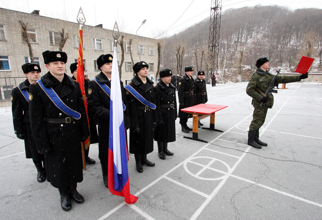 “Pacific Fleet marines take oath”. Russia's Pacific Fleet conscripts, who are to serve one year, taking the oath of office.